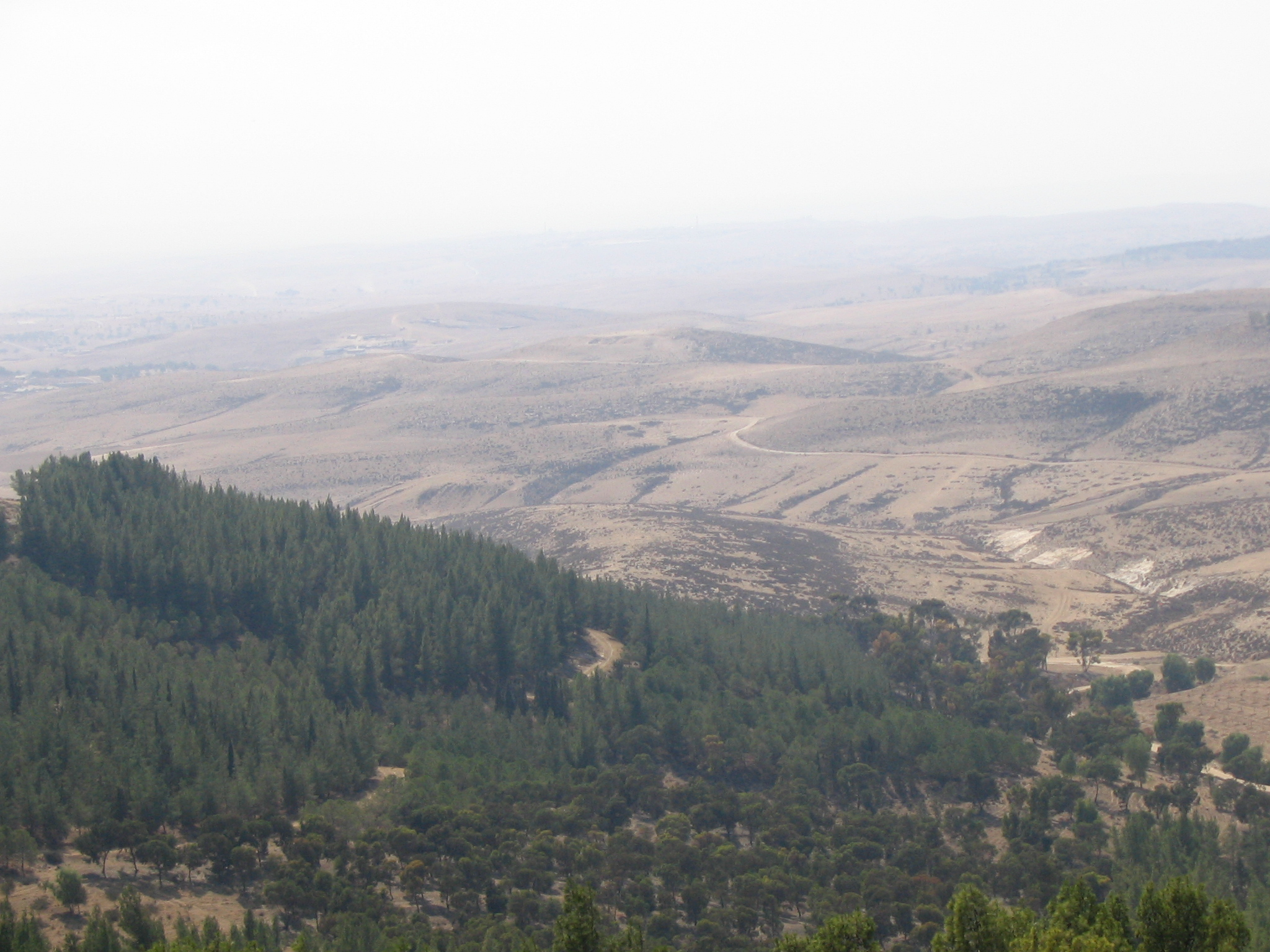 Yatir Forest, in Yatir District, on the southern Slopes of Mount Hebron, southern Israel. Photograph taken by me, on 20/09/2006, from "Beit Yaaranim" Forester station.